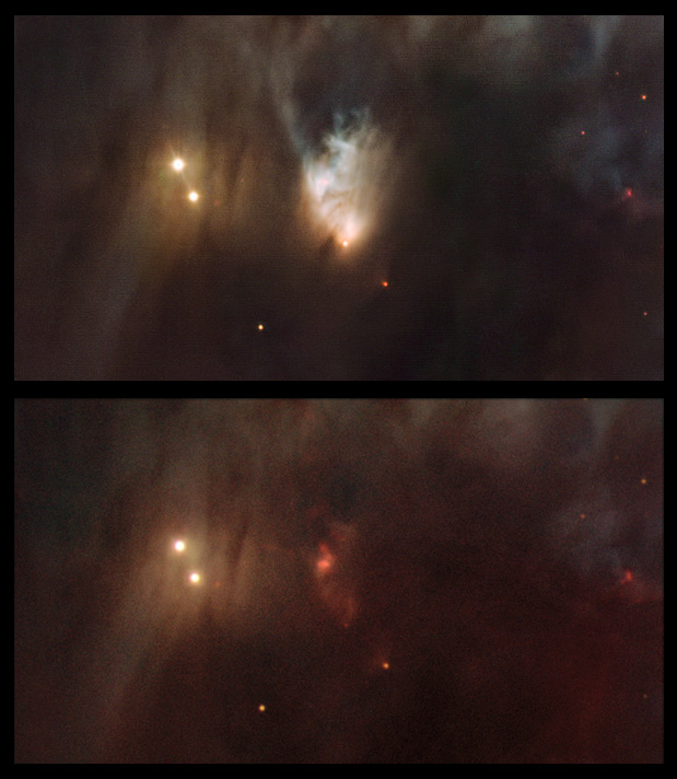 In these images we compare a colour picture of the Messier 78 region taken in 2006 with the 4-metre Mayall telescope at Kitt Peak, Arizona (below) with a new image that was captured using the Wide Field Imager camera on the MPG/ESO 2.2-metre telescope at the La Silla Observatory, Chile (above). The bright, but highly variable, fan-shaped structure, a feature first spotted by amateur astronomer Jay McNeil in early 2004, is almost completely invisible in the older image but very prominent in the new picture.